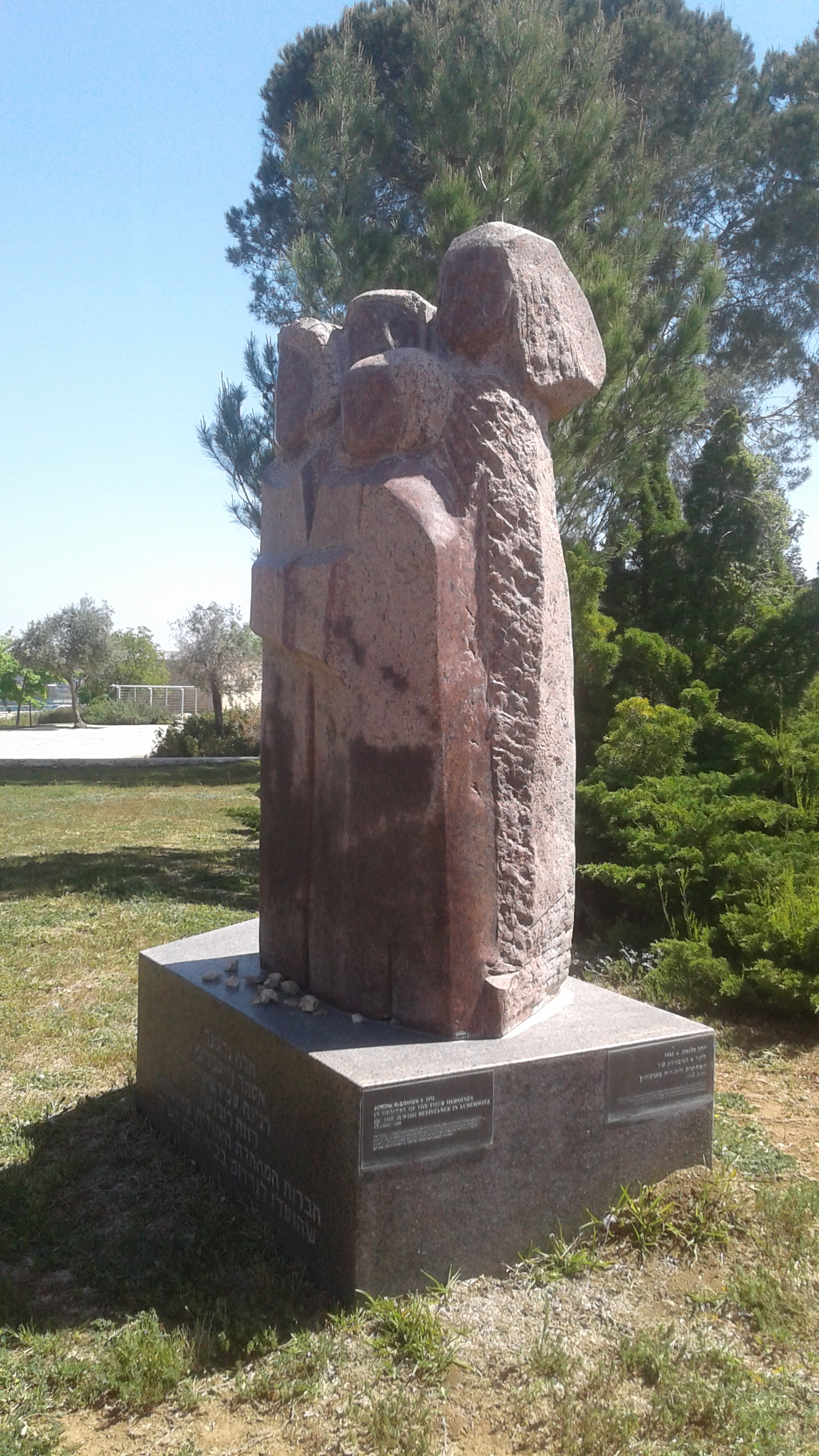 A sculpture in memory of 4 Jewish woman who took part at the Zonderkomando rebelion at Auschwitz at October 7, 1944. The sculpture is in Yad Vashem, Jerusalem. Made by Joseph Salomon. Granite, 1989.